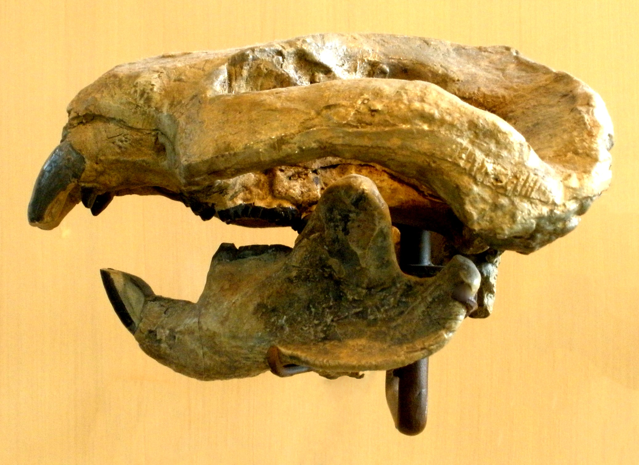 fossil of Taeniolabis, an extinct multituberculate (superfluous text and button removed from original photograph)